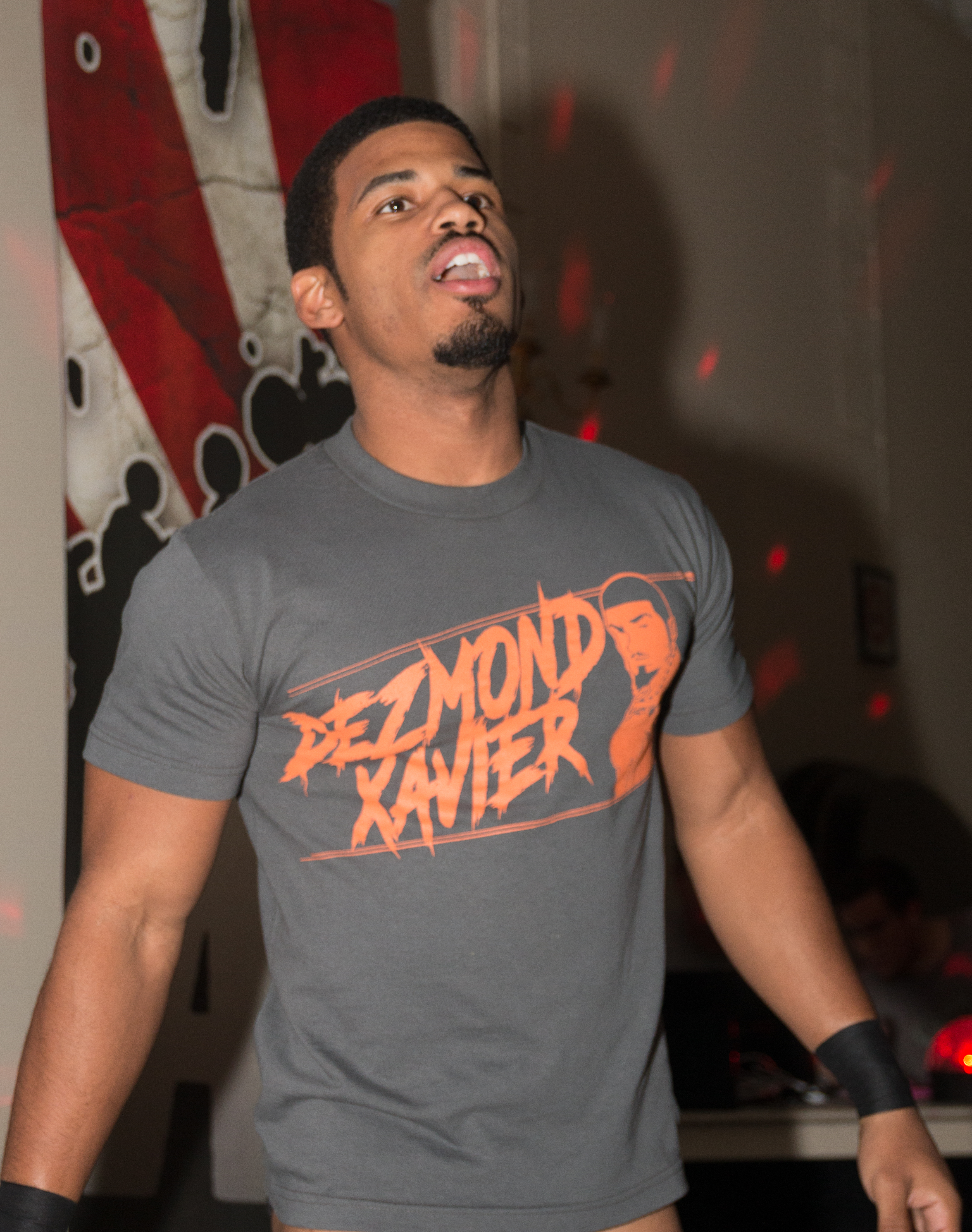 Professional wrestler Dezmond Xavier making his way to the ring at Alpha-1's Long Halloween show